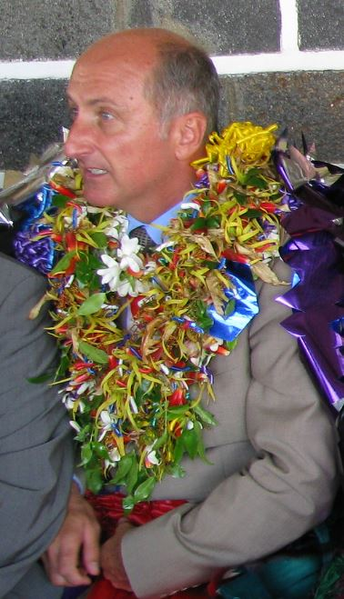 Cropped photo of Gaël Yanno meeting with Australian and New Caledonian officials in Wallis and Futuna in July 2011